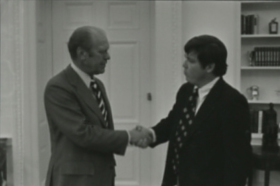 The photo contact sheet, identified as B1541 by the White House Photographic Office (WHPO), is housed at the Gerald R. Ford Presidential Library, a branch of the National Archives and Records Administration (NARA). This file is a 200 dpi photo contact sheet having images from roll of film B1541 of the August 9, 1974 - January 20, 1977 Gerald R. Ford White House Photographic Office Series A0001-A9999 and B0001-B2886 photographs. The date on the photo contact sheet is the date the roll of film was processed, not necessarily the date the photographs were taken. See table below for additional details.